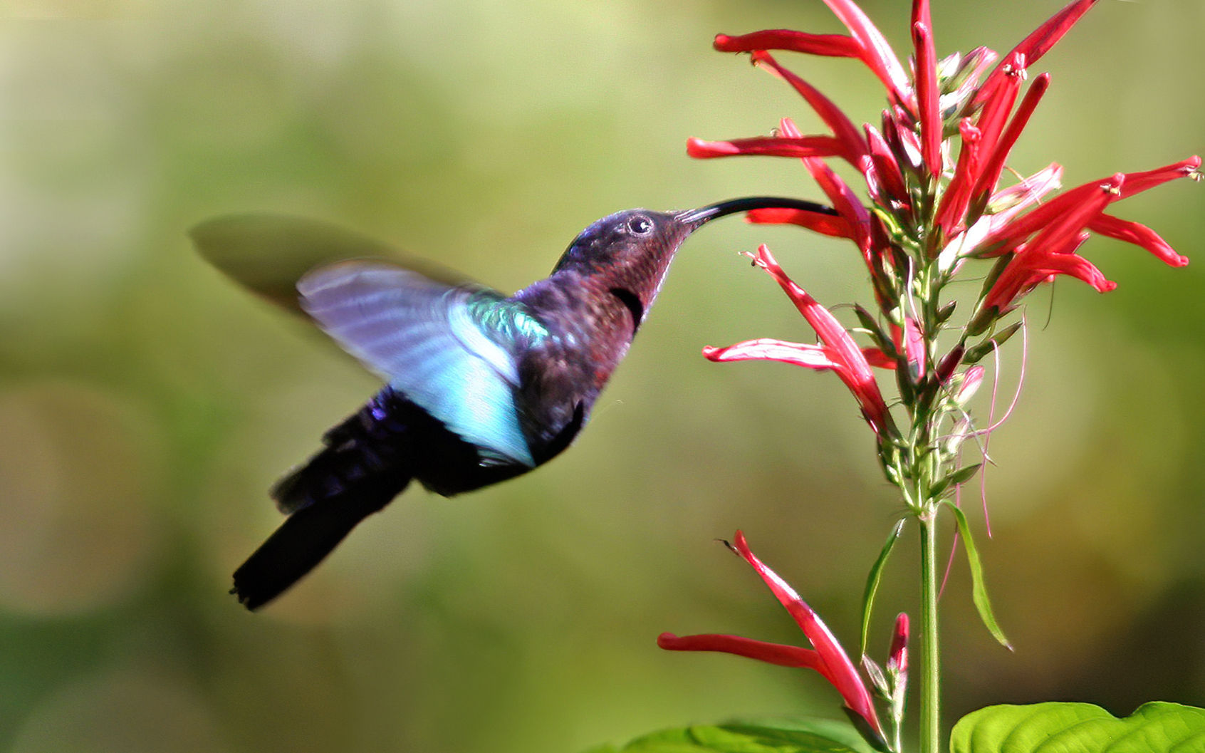 Purple-throated Carib hummingbird (Eulampis jugularis) feeding photographed in its natural habitat in the Morne Diablotins National Park in Dominica. Guide was local expert 'Dr Birdy' Bertrand Baptiste.